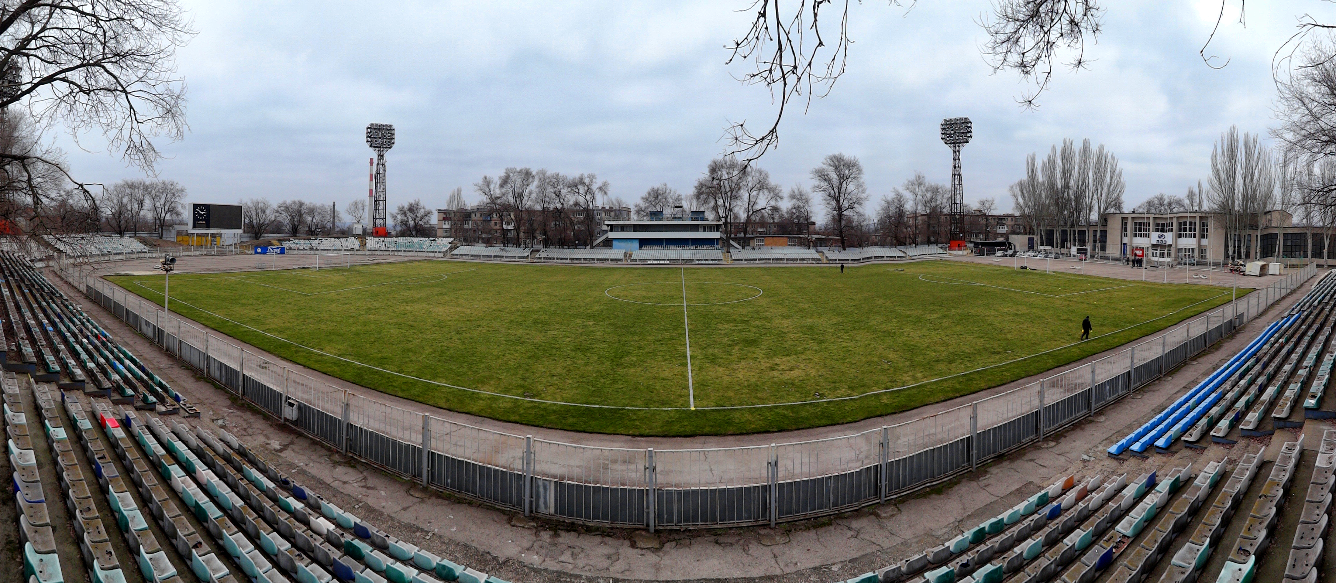 JSC ZAZ Stadium in Zaporizhia, Ukraine